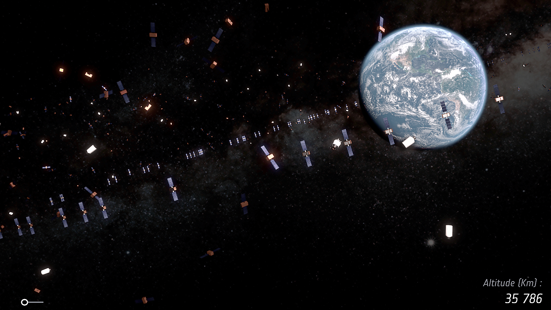 Debris and defunct launcher stages in the Geostationary ring. Aging satellites are known to release debris and explosions can occur due to residual energy sources. The resulting fragments can be thrown back and cross the Geostationary orbit. For this reason it's fundamental to release residual energy once the nominal mission is completed.